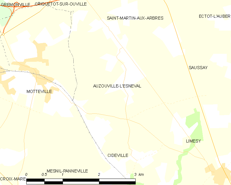 Map of French municipality Auzouville-l'Esneval